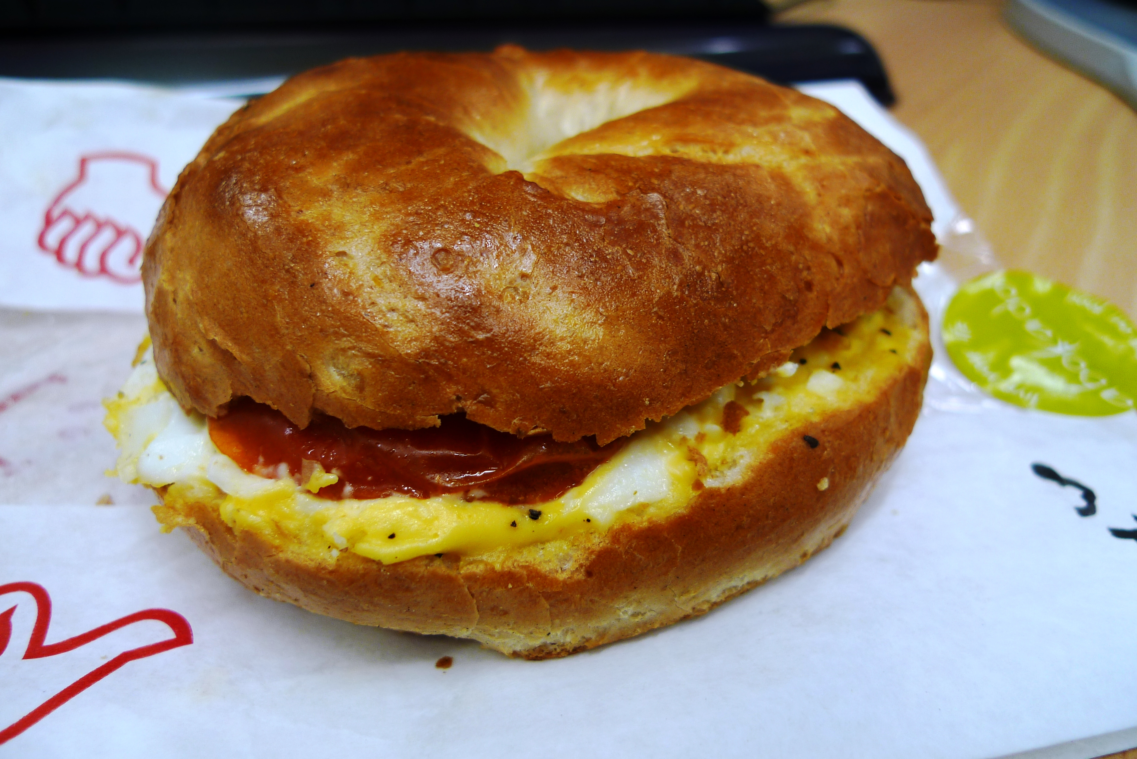 Pictured sitting in my office is this toasted bagel with scrambled eggs and roasted tomato. It was rather nice actually. From Abokado, New Cavendish Street.